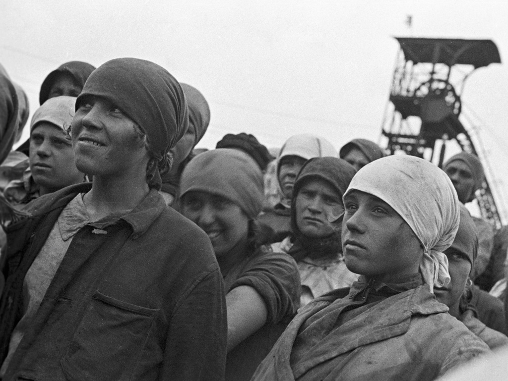 “Komsomol appeal”. Young girls having arrived to the mine shafts of Gorlovka, Donetsk Oblast' in eastern Ukraine, under the Komsomol appeal.